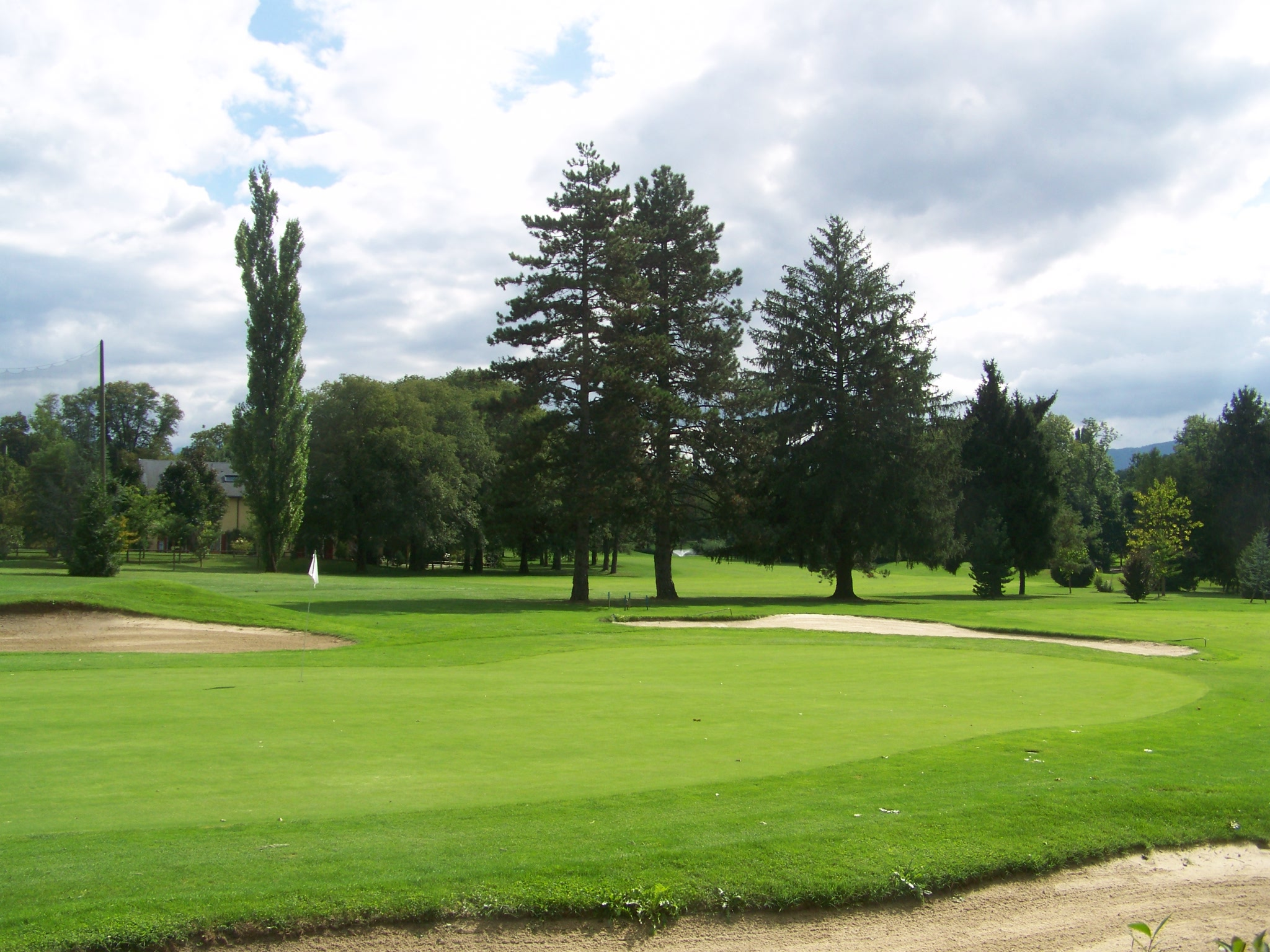 City of Aix-les-Bains golf course in Savoie, France. Oldest golf course of the Rhône-Alpes region of France.